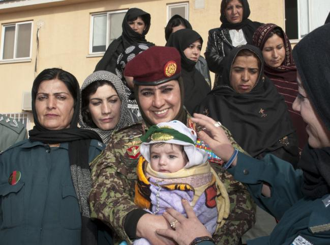 Afghan Brig. Gen. Khatool Mohammadzai, director for women’s affairs and deputy director for the education and physical training within the Afghan National Army, poses with a group of Afghan National Police (ANP) women after discussing their issues and concerns in a meeting held at the Joint Regional Afghan Command in Kandahar, Afghanistan, February 20, 2012. (U.S. Army Photo by Staff Sgt. Nazly Confesor, 319th Mobile Public Affairs Detachment)